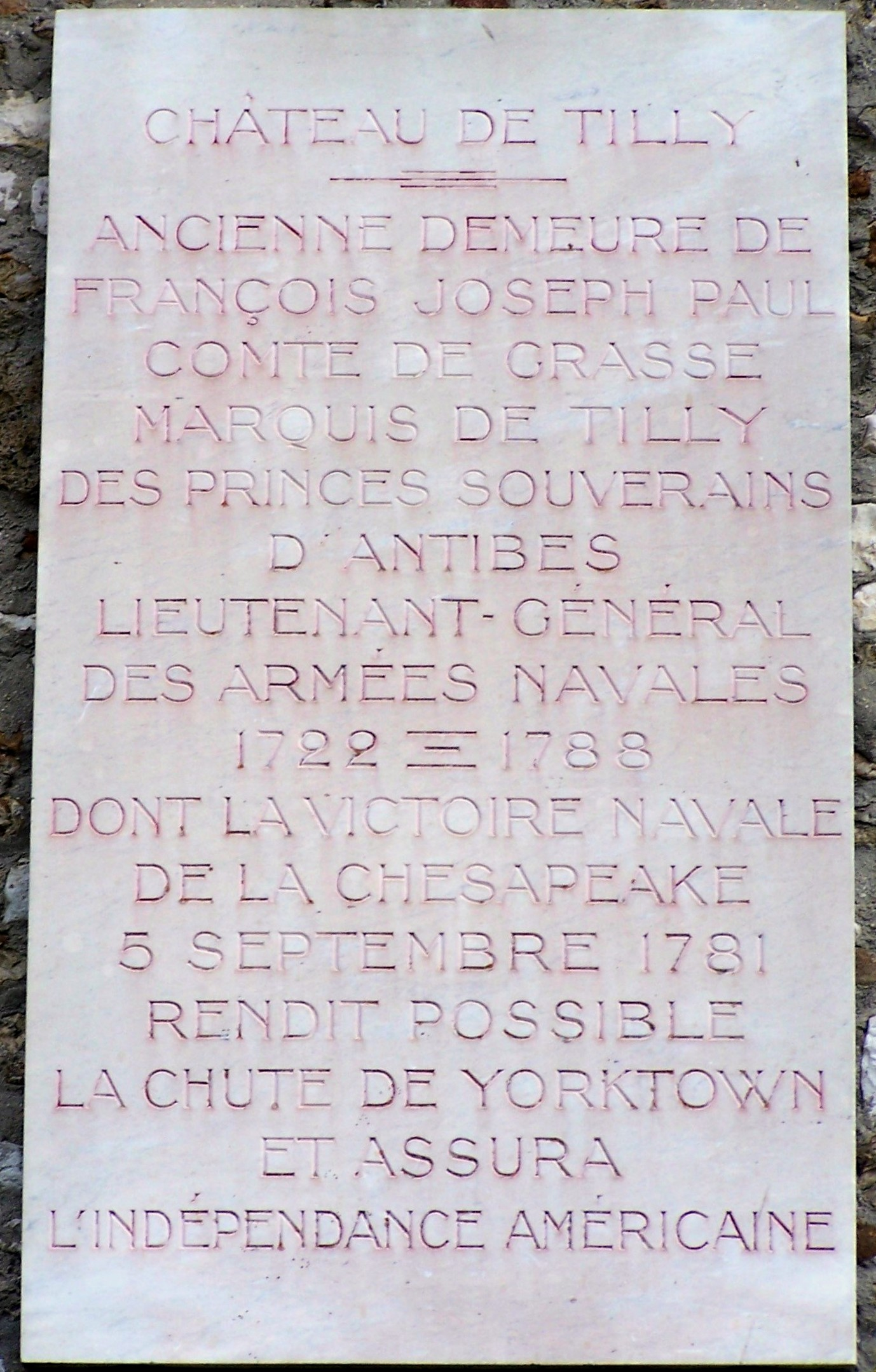 Commemorative plate of the admiral de Grasse in Tilly (Yvelines, France)